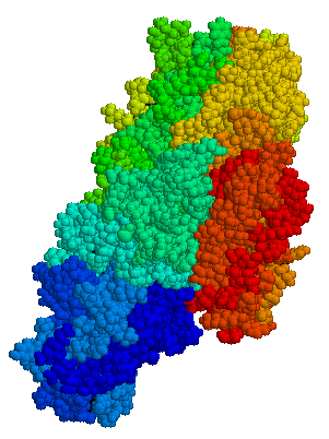 Tissue transglutaminase, drawn from with RasMol and Microsoft Paint and PhotoEditor by JFW | T@lk